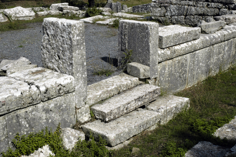 Orthostates at the sanctuary of Despoina in Lycosoura. (The side doorway to the cella of the temple of Despoina.)